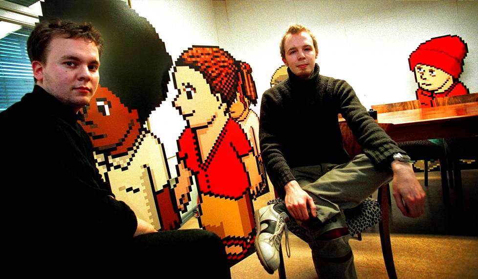 Aapo Kyrölä (left) and Sampo Karjalainen at Sulake office